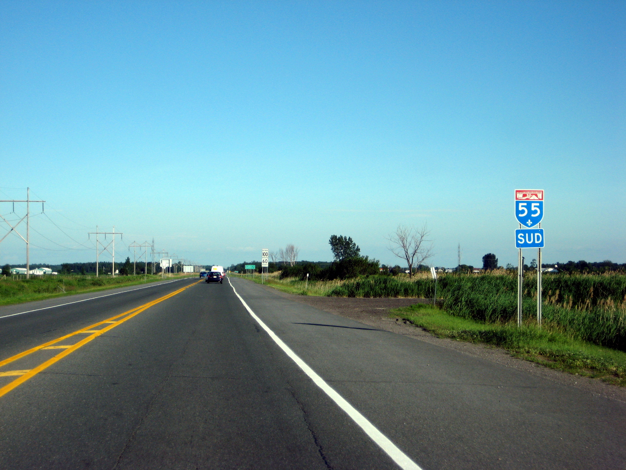 Quebec Autoroute 55, headed south (sud)